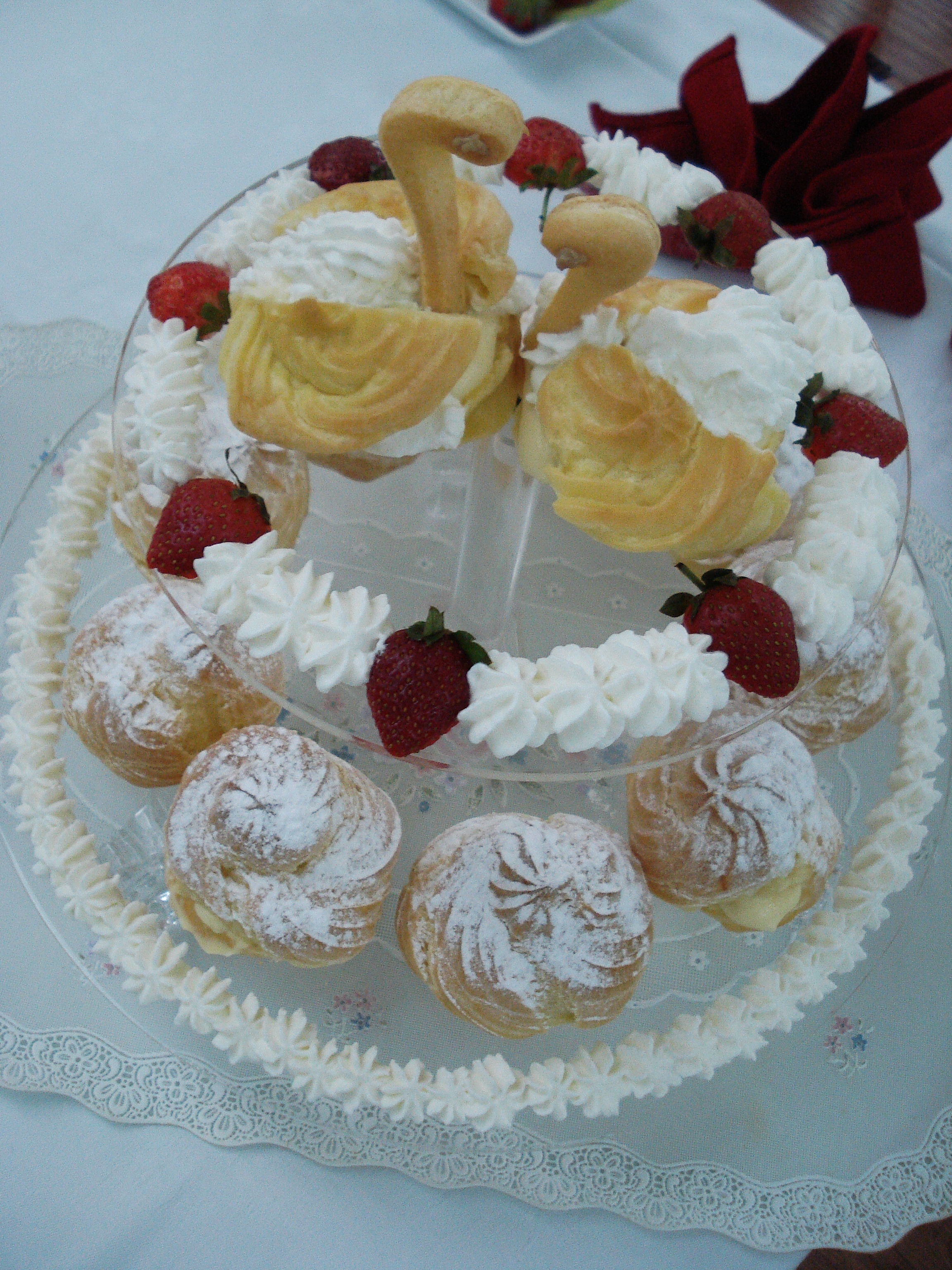 Swan choux pastries